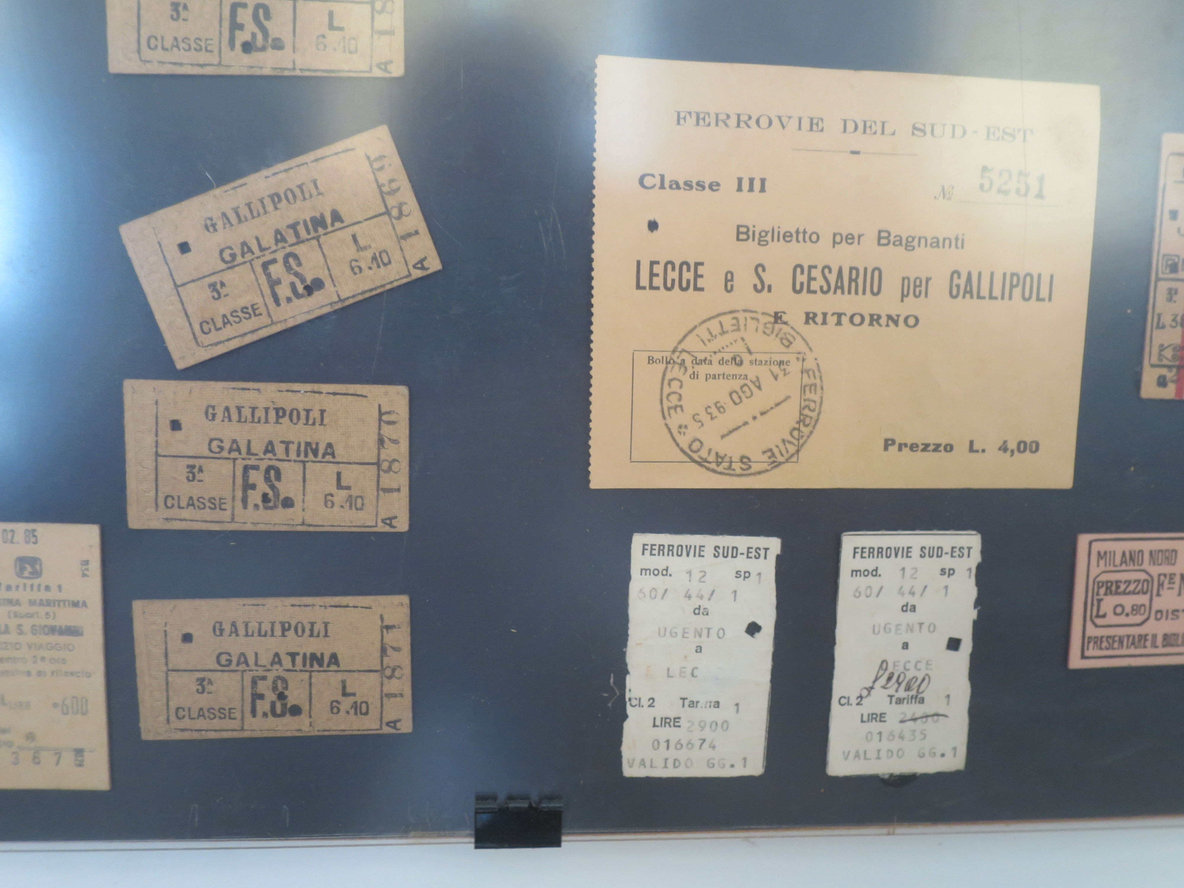 Tickets of Ferrovie del Sud Est